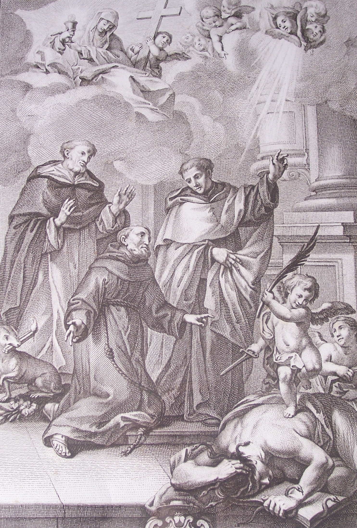 St Angelus of Jerusalem O.Carm